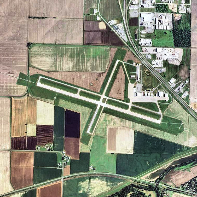 USGS digital orthophoto of Cape Girardeau Regional Airport in Missouri